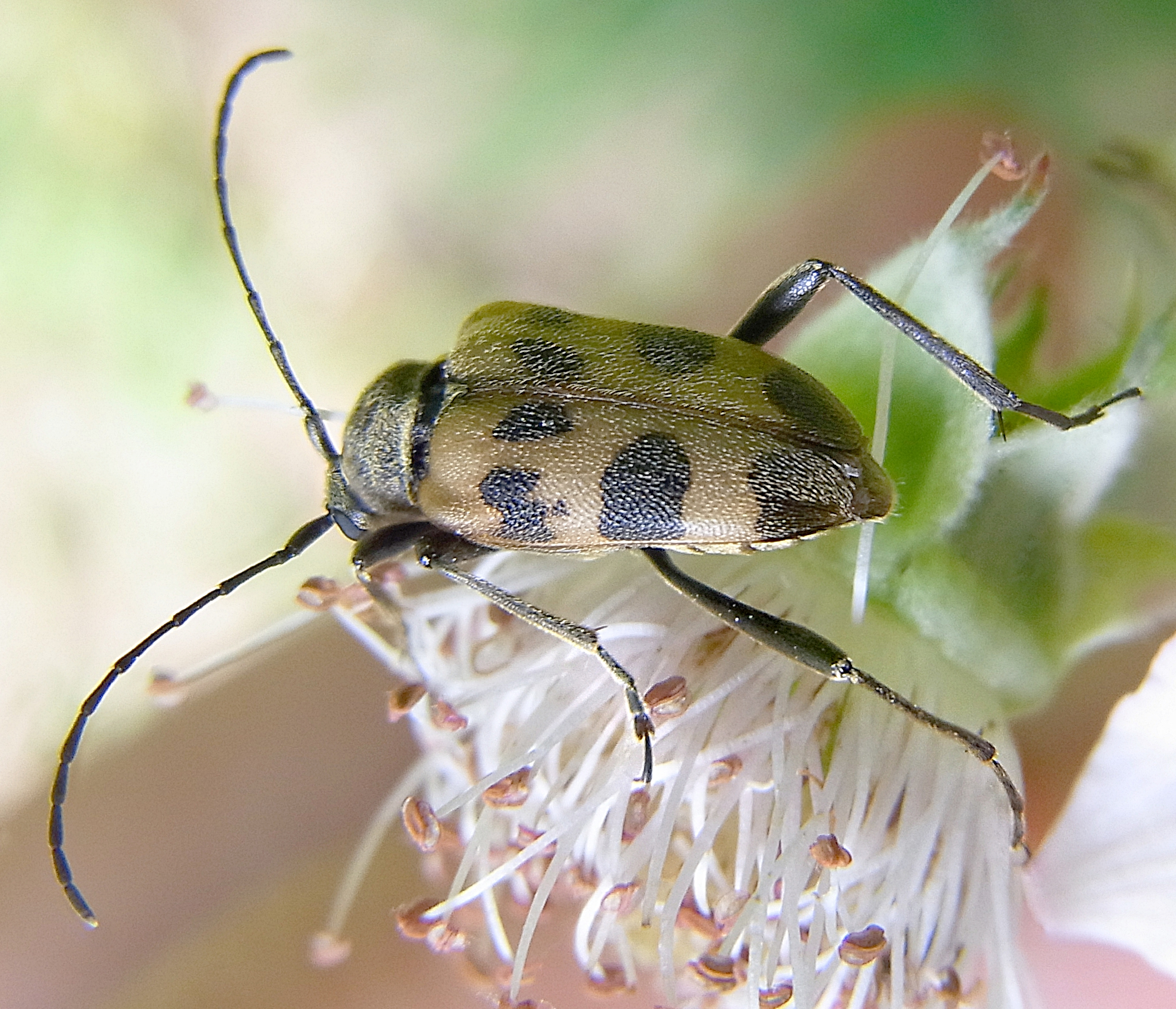 Pachytodes cerambyciformis from France near Le-Puy-en-Vallay at 2011-07-04